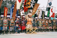 shingenko-festival01